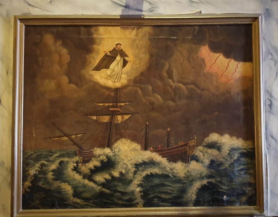 Painel na parede pintado por Nicolau Ferreira, representando São Telmo